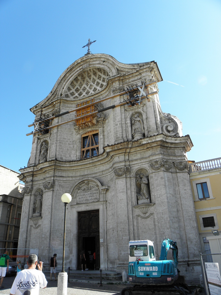 L'Aquila 2010